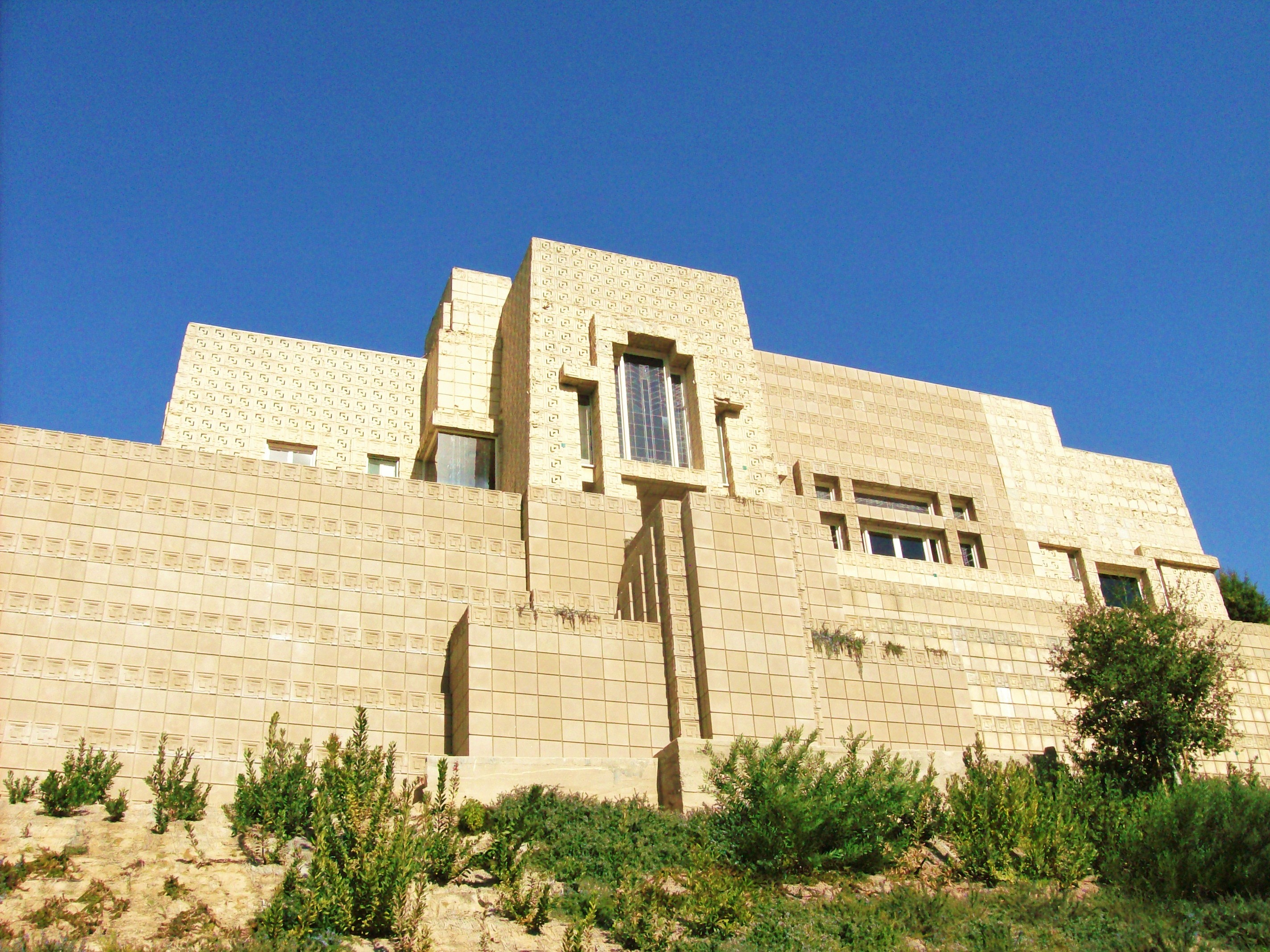 Ennis House (3)